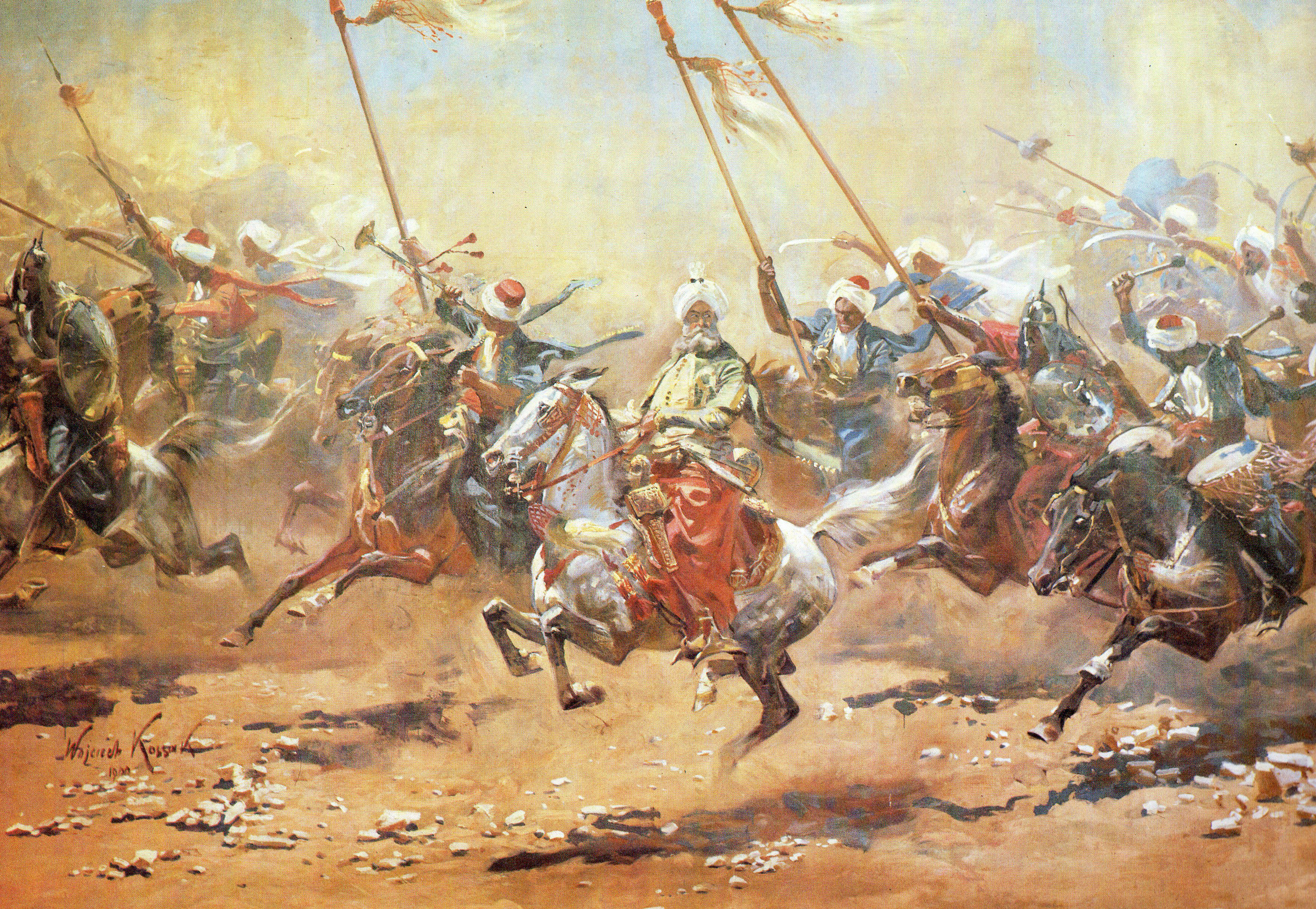 Battle of the Pyramids Panorama (fragment)